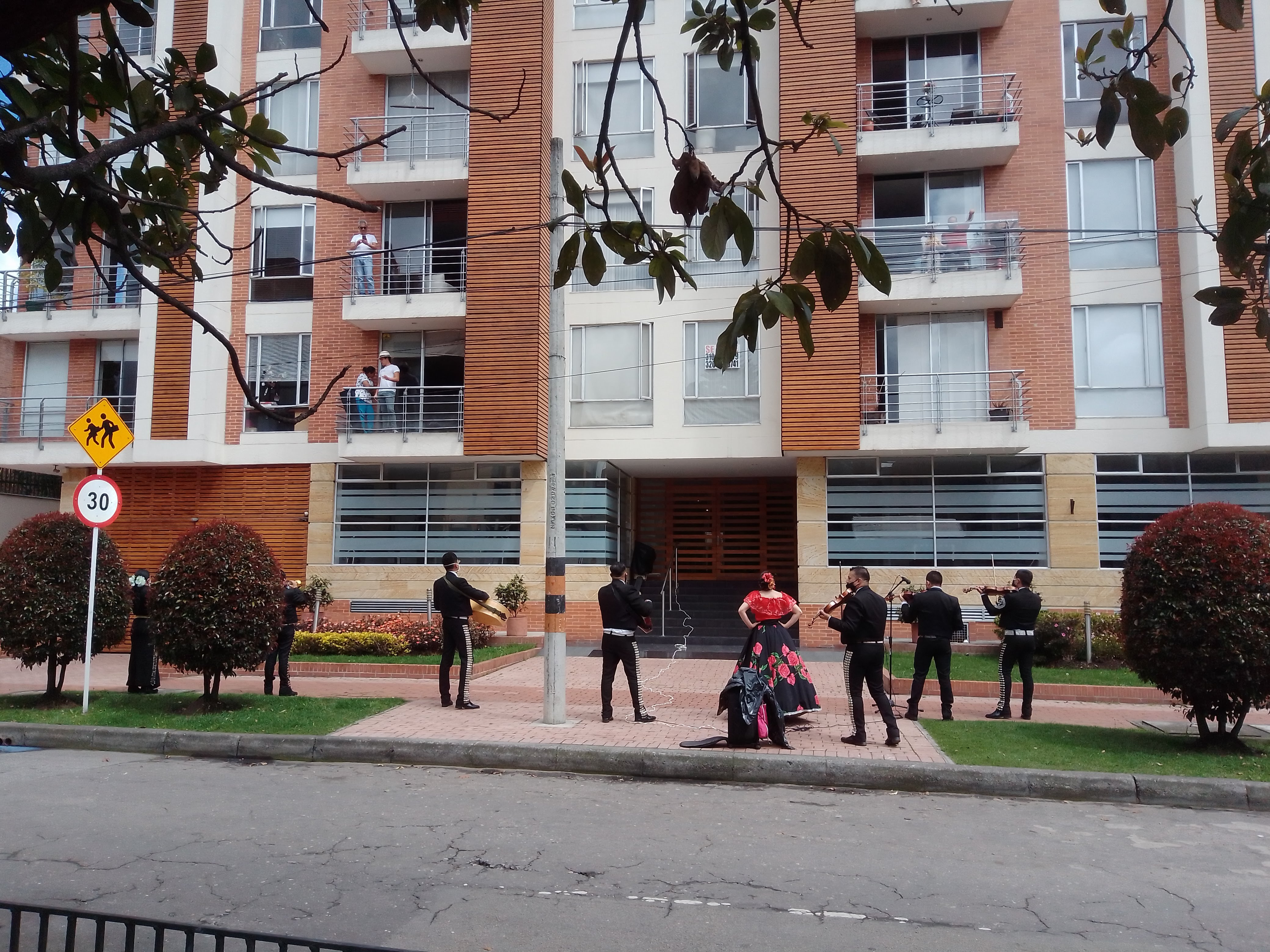 Mariachi band playing for tips in Bogotá, Colombia, 20200613